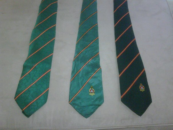 The college notable green tie, worn by OPs on Wednesdays